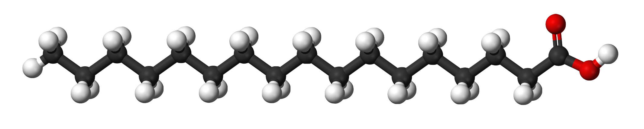 Ball-and-stick model of the heptadecanoic acid molecule.